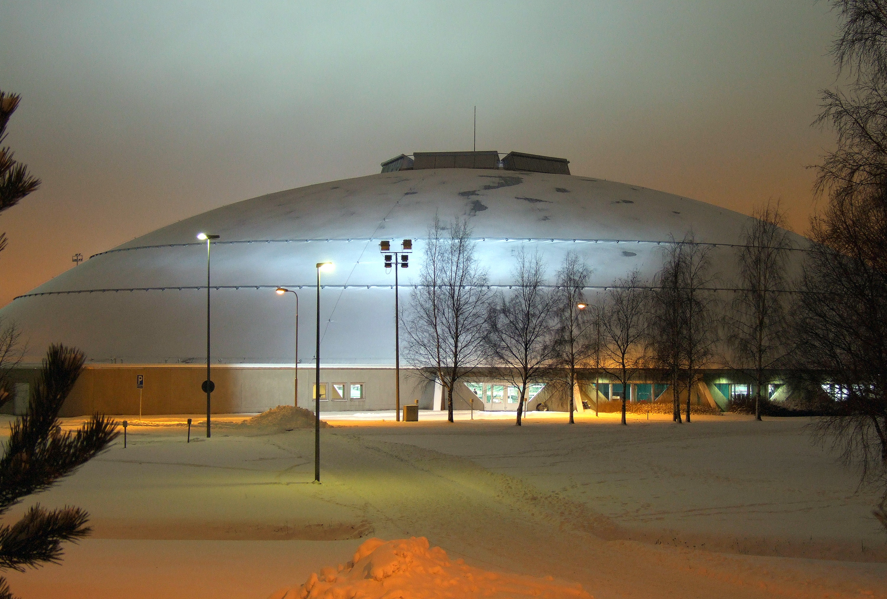 Ouluhalli indoor sports arena in Raksila, Oulu